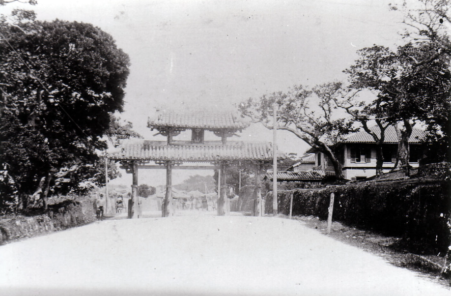 Chuzan gate at Shuri Castle. Built around 1429, demolished around 1909.